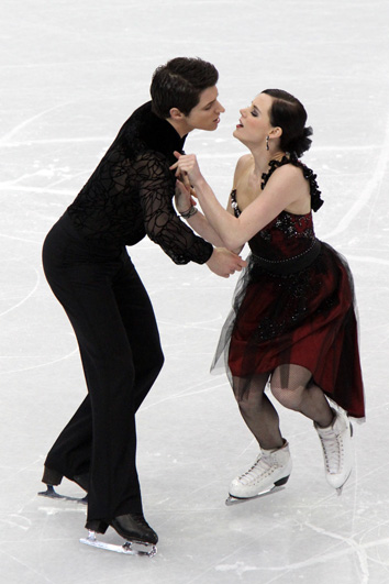 2010 Winter Olympics figure skating - Tessa Virtue and Scott Moir